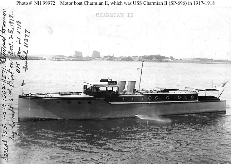 The motorboat Charmian II prior to her United States Navy service as the patrol vessel .